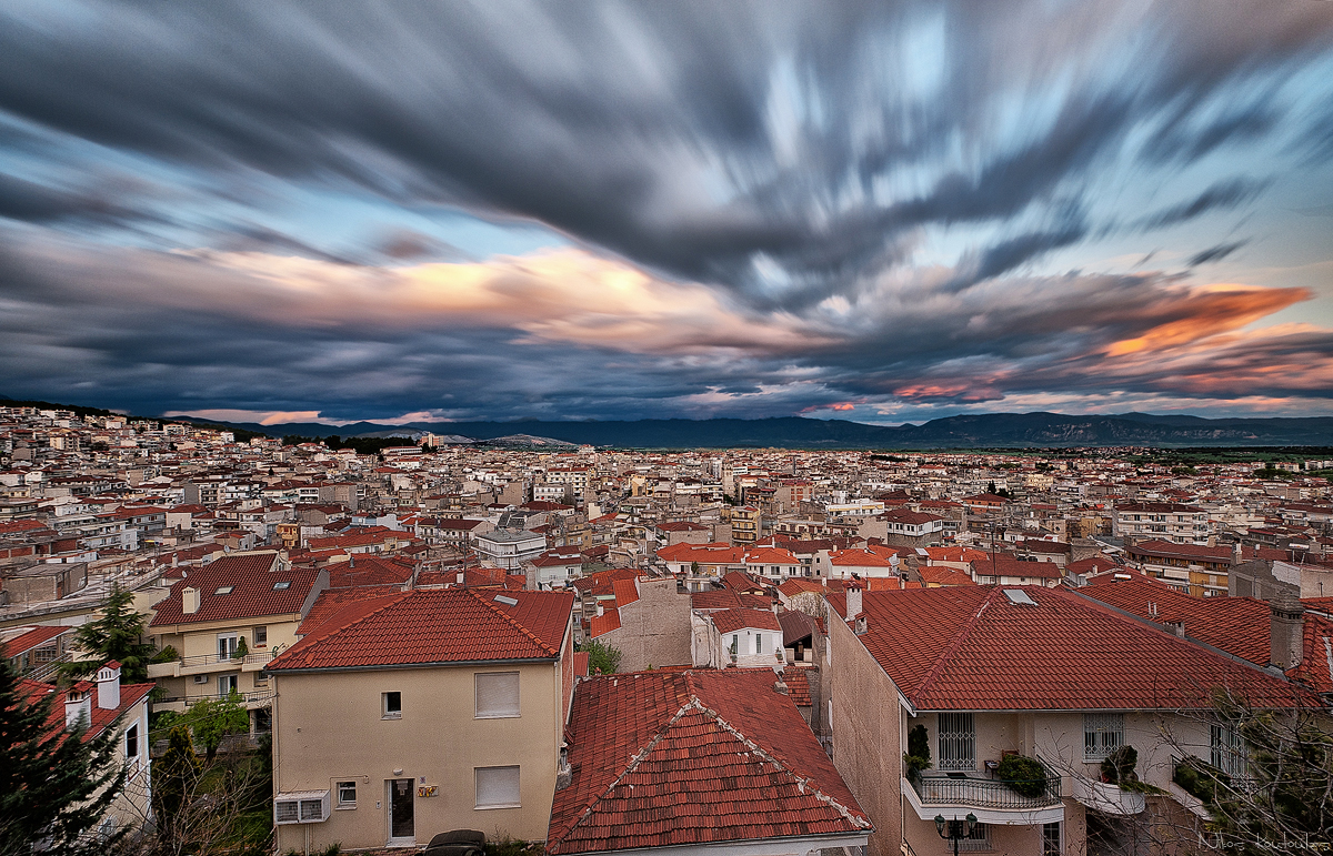 View of Kozani